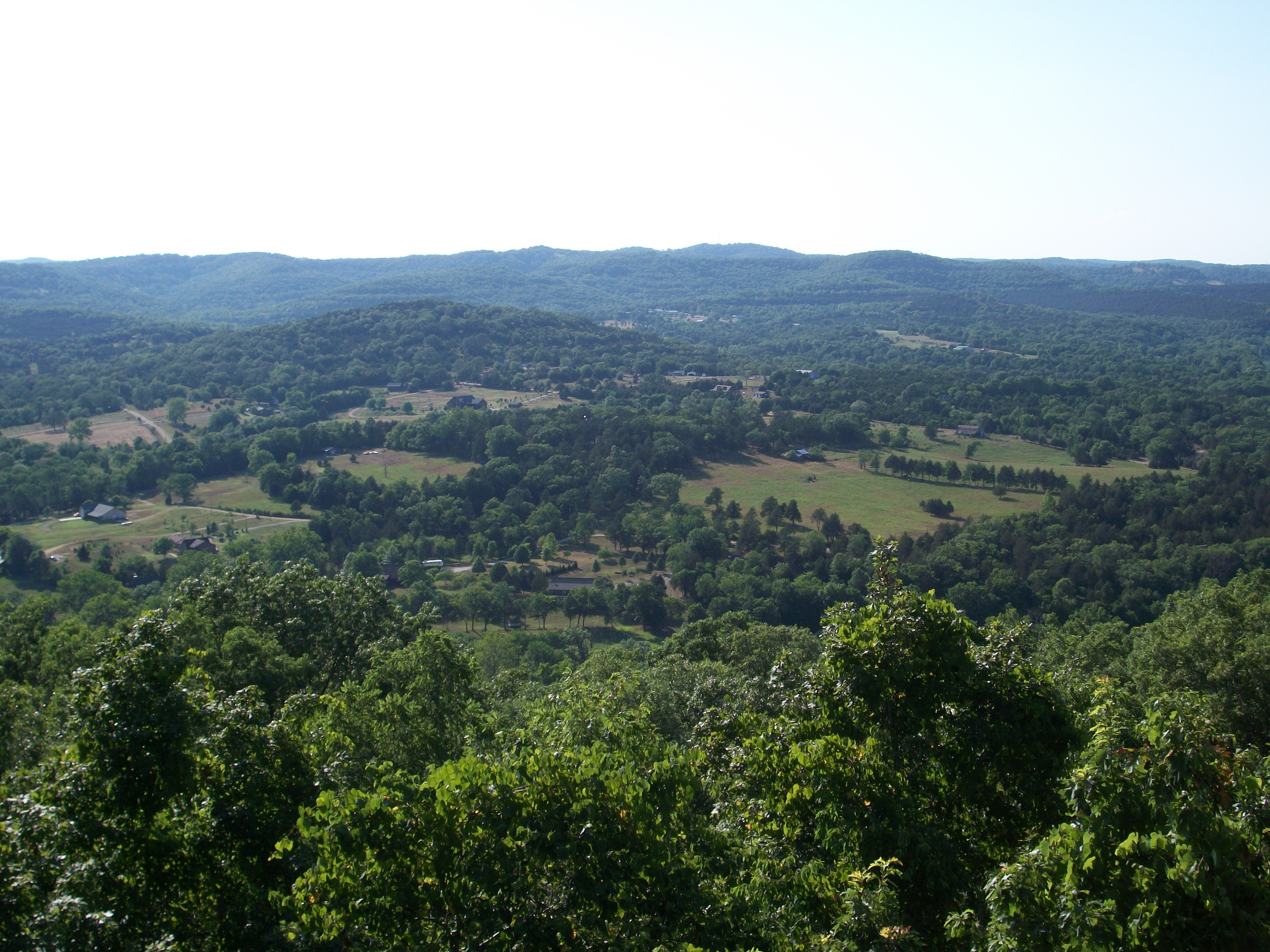 Scenic outlook in Carroll County, Arkansas. View facing northeast.